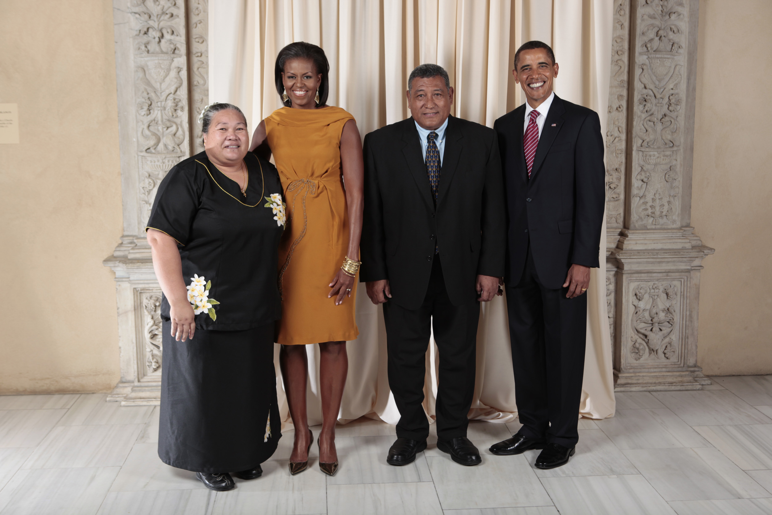 President Barack Obama and First Lady Michelle Obama pose for a photo during a reception at the Metropolitan Museum in New York with Tuvalu Prime Minister Apisai Ielemia and his wife, Lady Sikinala Ielemia.